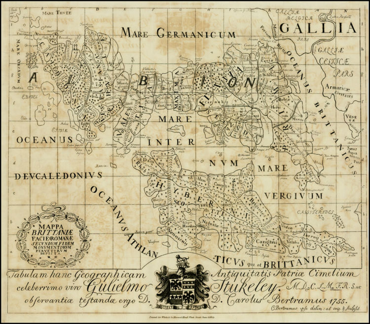 A natural-color image of the black and white reprint (15×12.5 inches) of Charles Bertram's map from his forged account The Description of Britain (Latin: De Situ Britanniae). →→→A historical forgery and not to be used as an accurate map.←←← Text: Mappa Britanniae Facie i Romanae Secundum Fidem Monumentorum Pervertum Depicta Tabulam hanc Geographicam Antiquitatis Patriae Cimelium celeberrimo viro Gulielmo Stukeley M.D., C.L.M., F.R.S.eet observantiae testandae ergo D. D. Carolus Bertramus 1755.C. Bertramus ipse delin: ab orig. & sculpsit. [motto:] Si Sit Rudent Printed for White & Co. Horace's Head Fleet Street June 1.1809.